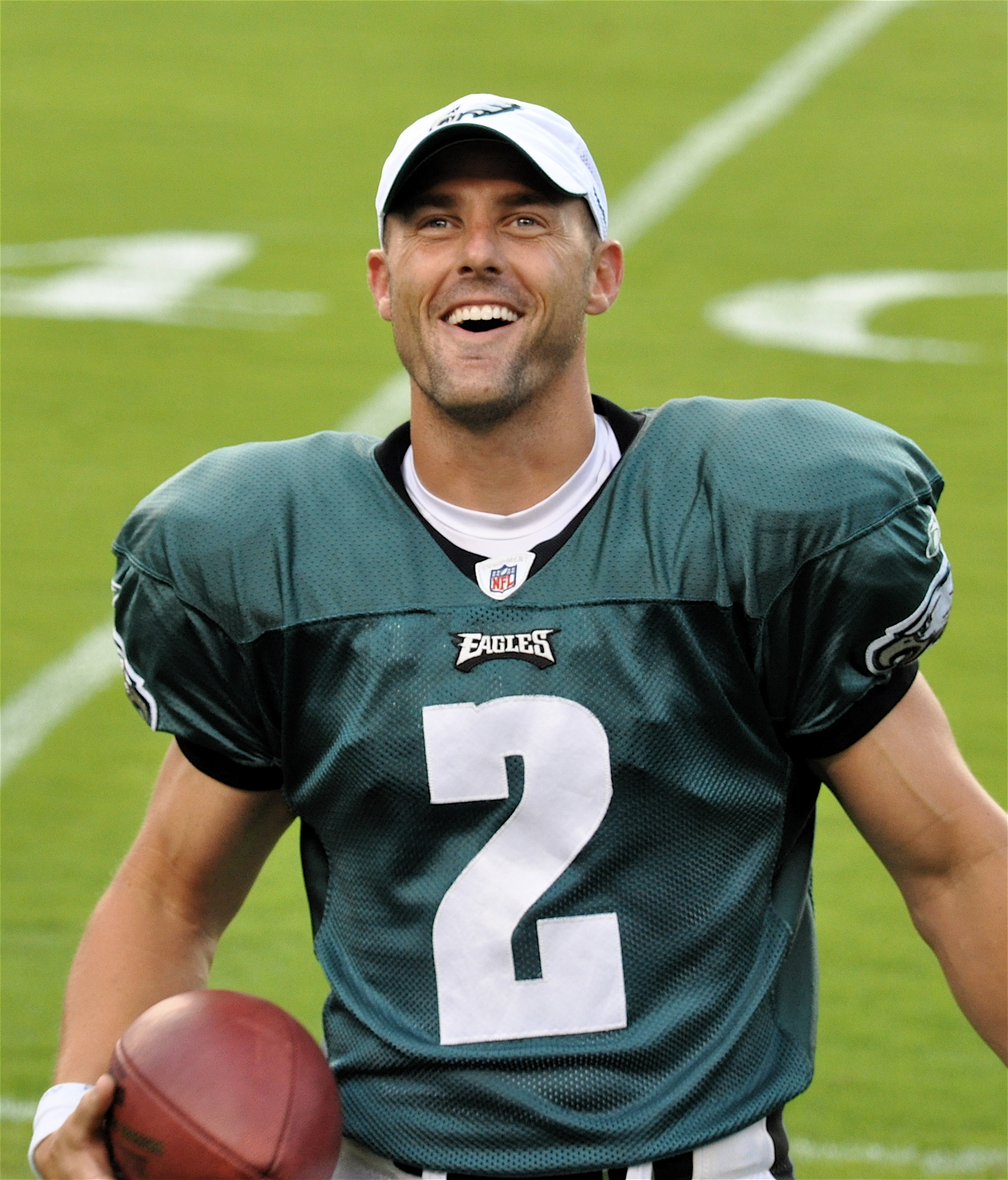 David Akers interacts with the crowd during Flight Night 2009 at Lincoln Financial Field.